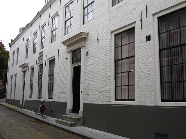 The Latin School has been a center of education in Middelburg for hundreds of years.